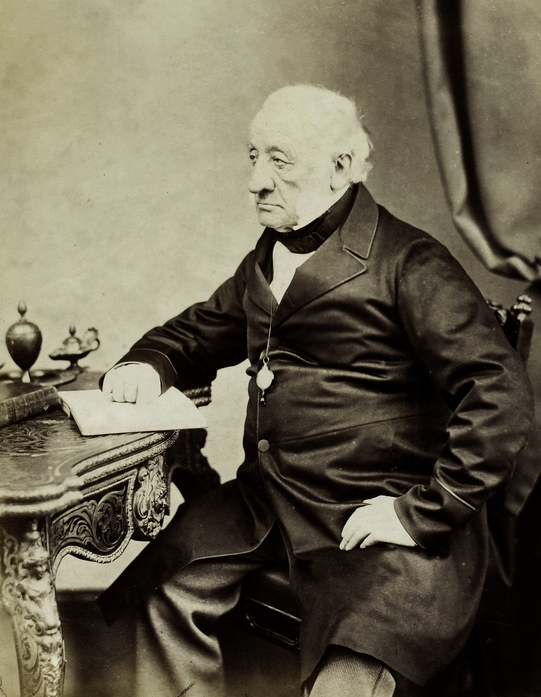 Sir John Fisher d. 1876, Surgeon in Chief of the Metropolitan Police for 43 years and a member of the St. Albans Medical Club (detail)